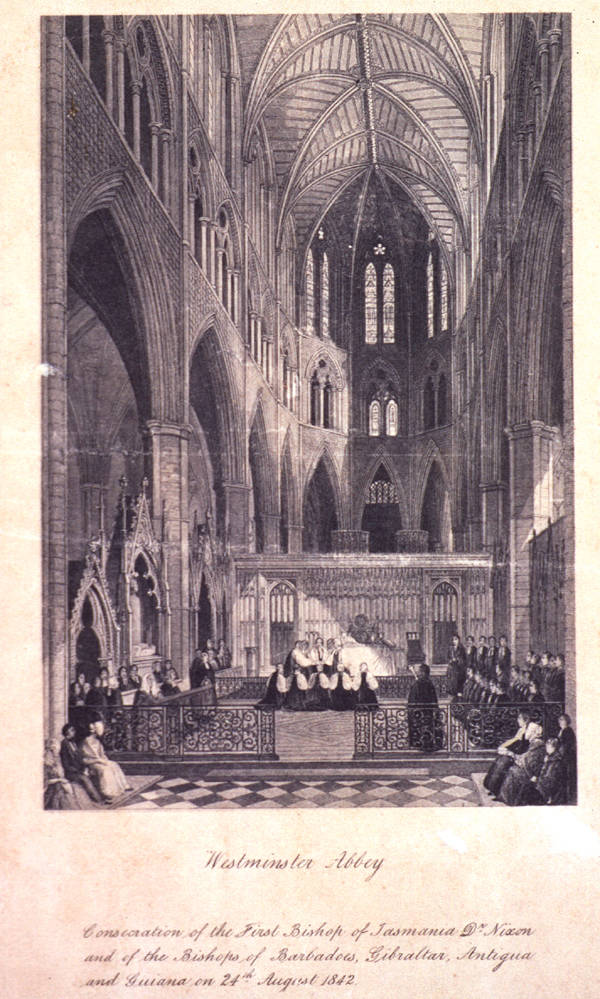 Consecration of the first Bishop of Tasmania Dr. Nixon and of the Bishops of Barbados, Gibraltar, Antigua and Guiana on 24th August 1842 in Westminster Abbey